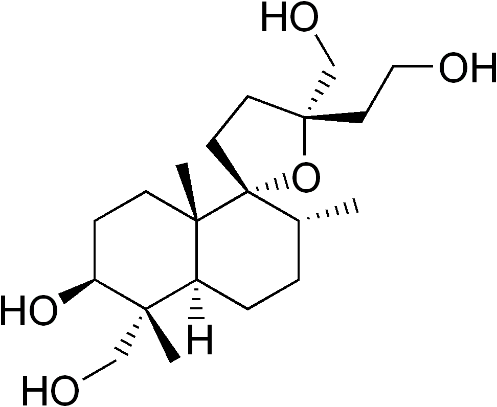 chemical structure of lagochilin (lagochiline)